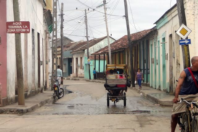 Street in the old city, Baracoa